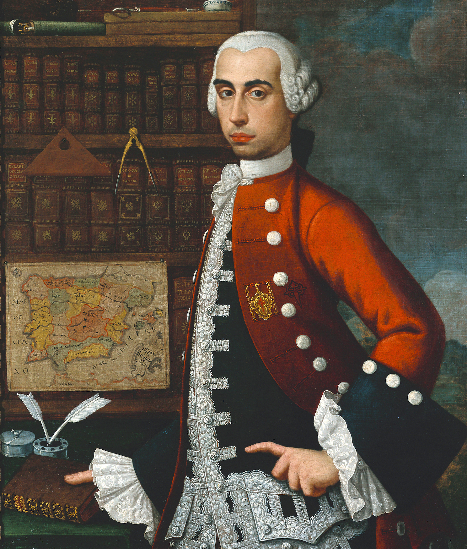 Pendant portrait of Antonio de Ulloa y de la Torre, 37.5 x 31.5 inches, Oil on canvas